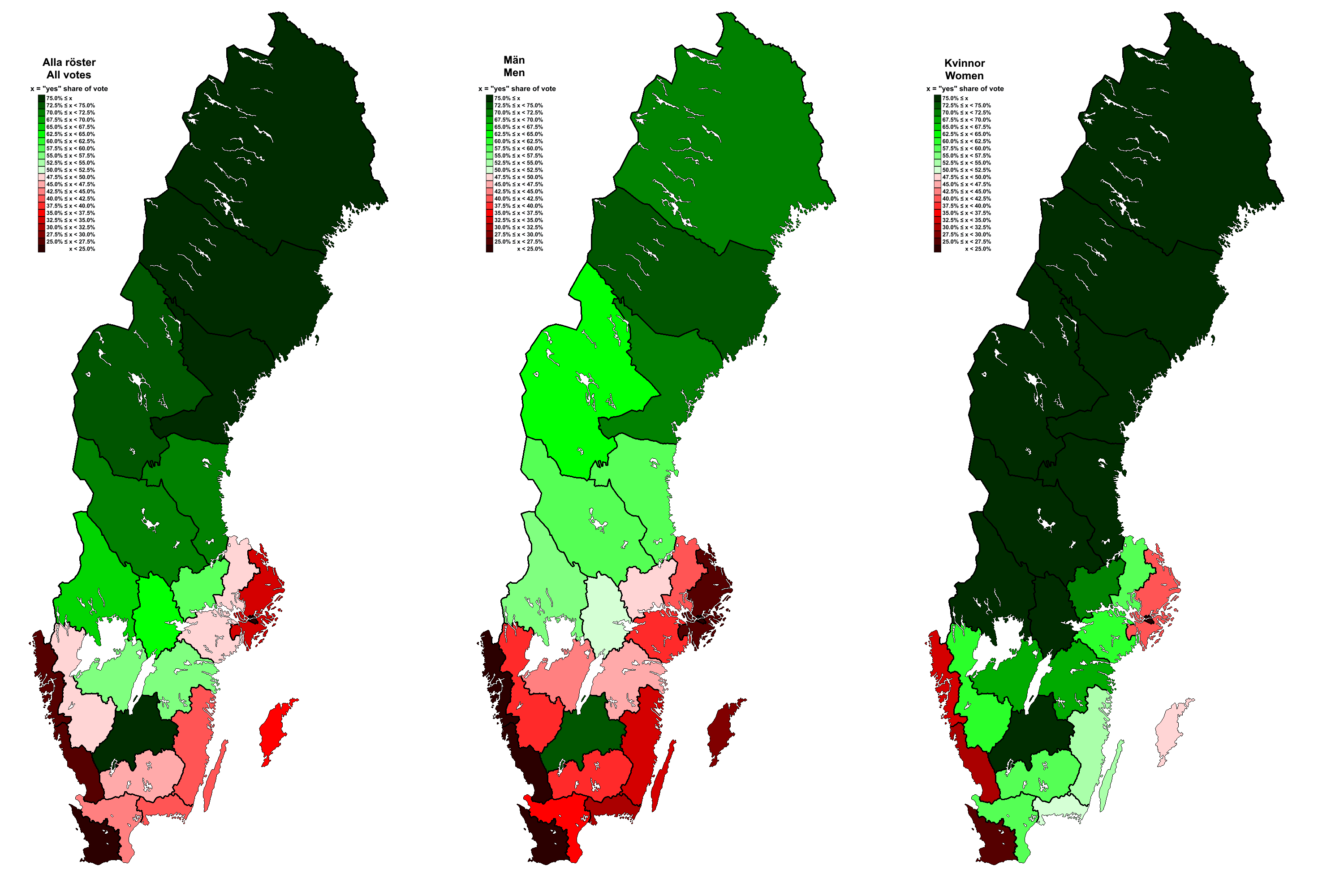 Results of the 1922 Swedish prohibition referendum, coloured by county and sex of voter.